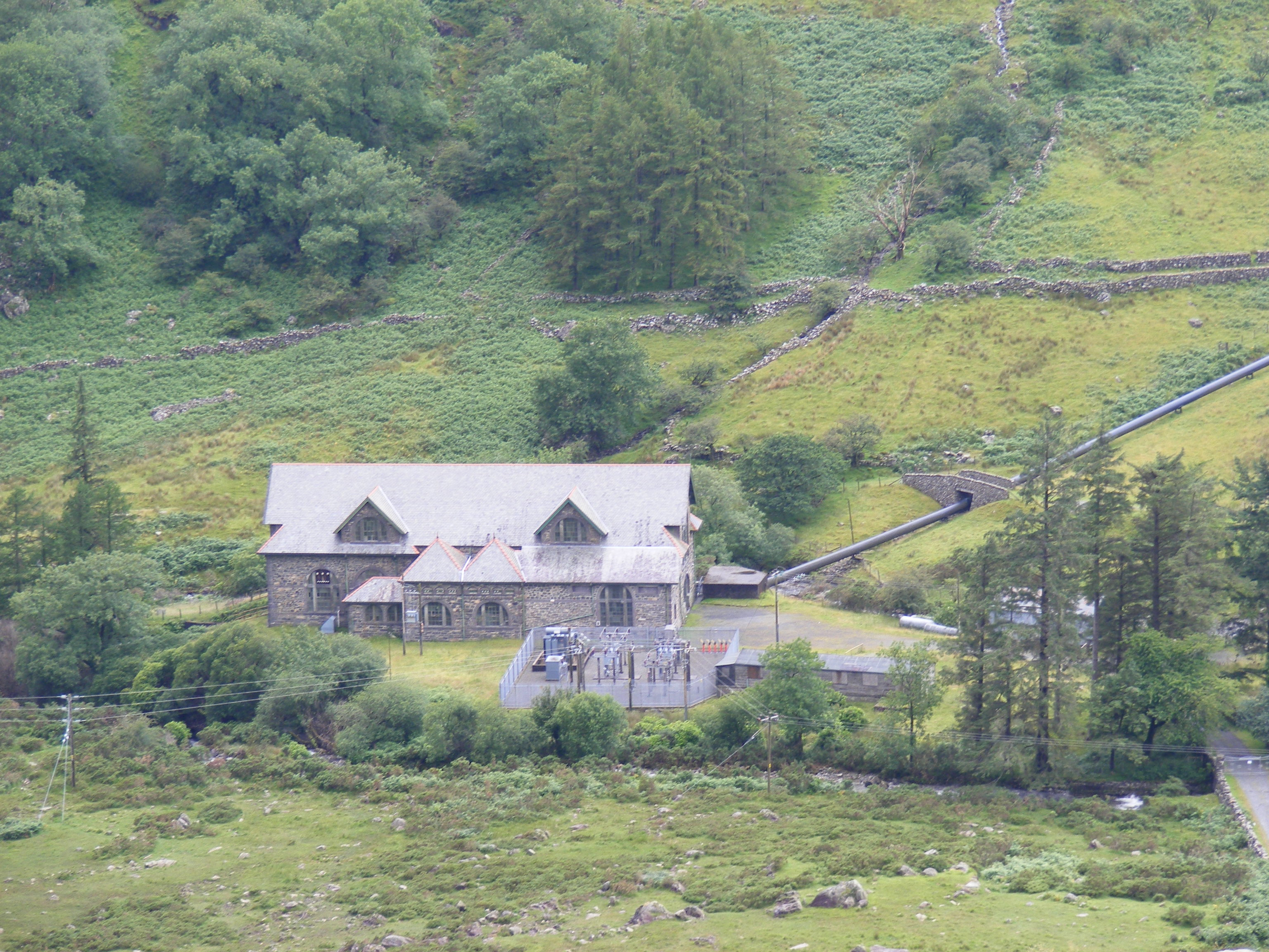 Hydroelectric power station built by North Wales Power and Traction Co Ltd in Nant Gwynant, Snowdonia, Wales.